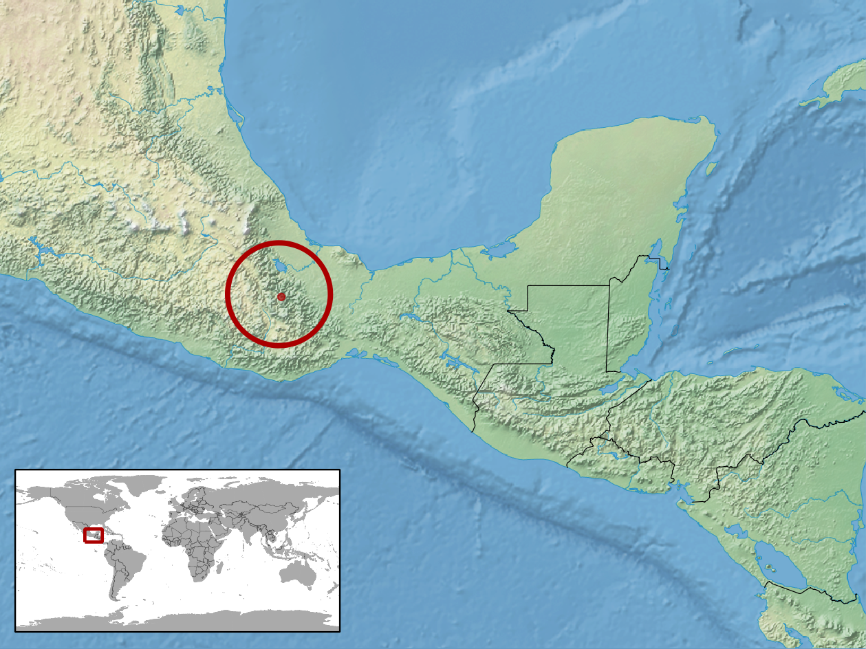 geographic distribution of Abronia mitchelli (Native: Mexico)